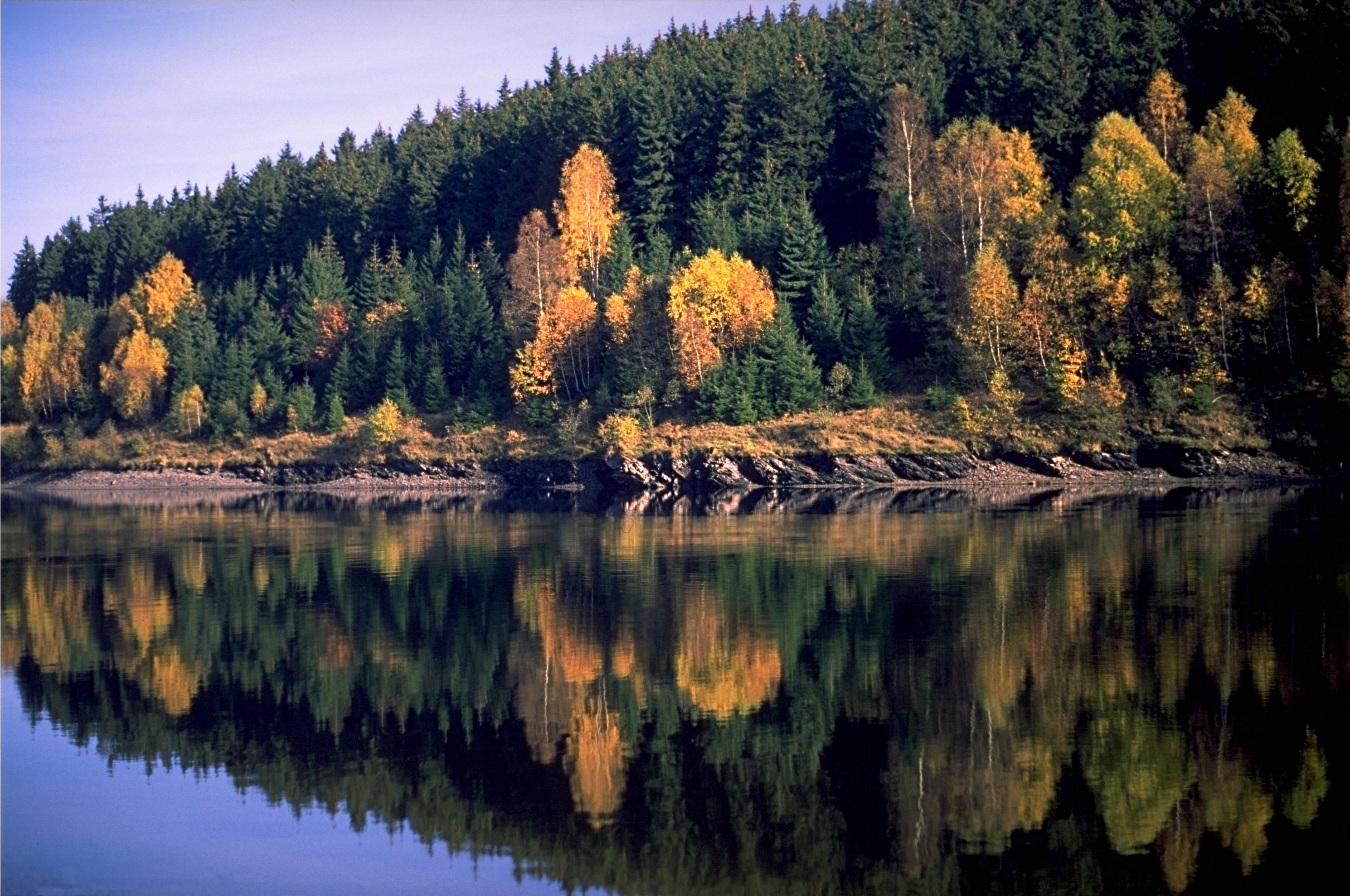 Eastern bank of the dam Mandelholz in Autumn, Harz, Germany Photo was taken using the following technique: Film: Fuji Velvia Lens: Minolta 75-300 Filter: none Body: Minolta 9000 Support: Gitzo Monotrek Image with Information in English Bild mit Informationen auf Deutsch